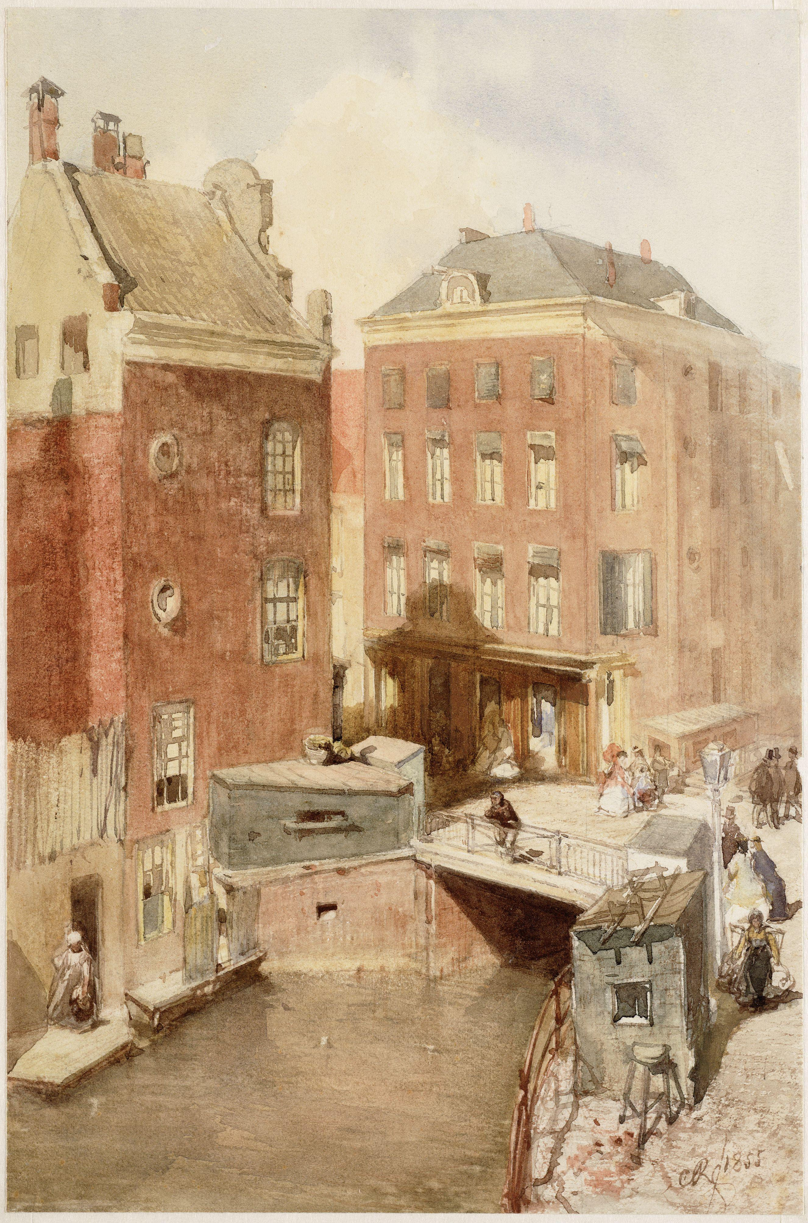 Charles Rochussen. Osjessluis. 1855. Water colour on paper (?). Amsterdam, Stadsarchief Amsterdam (inv.nr. 010001000589).